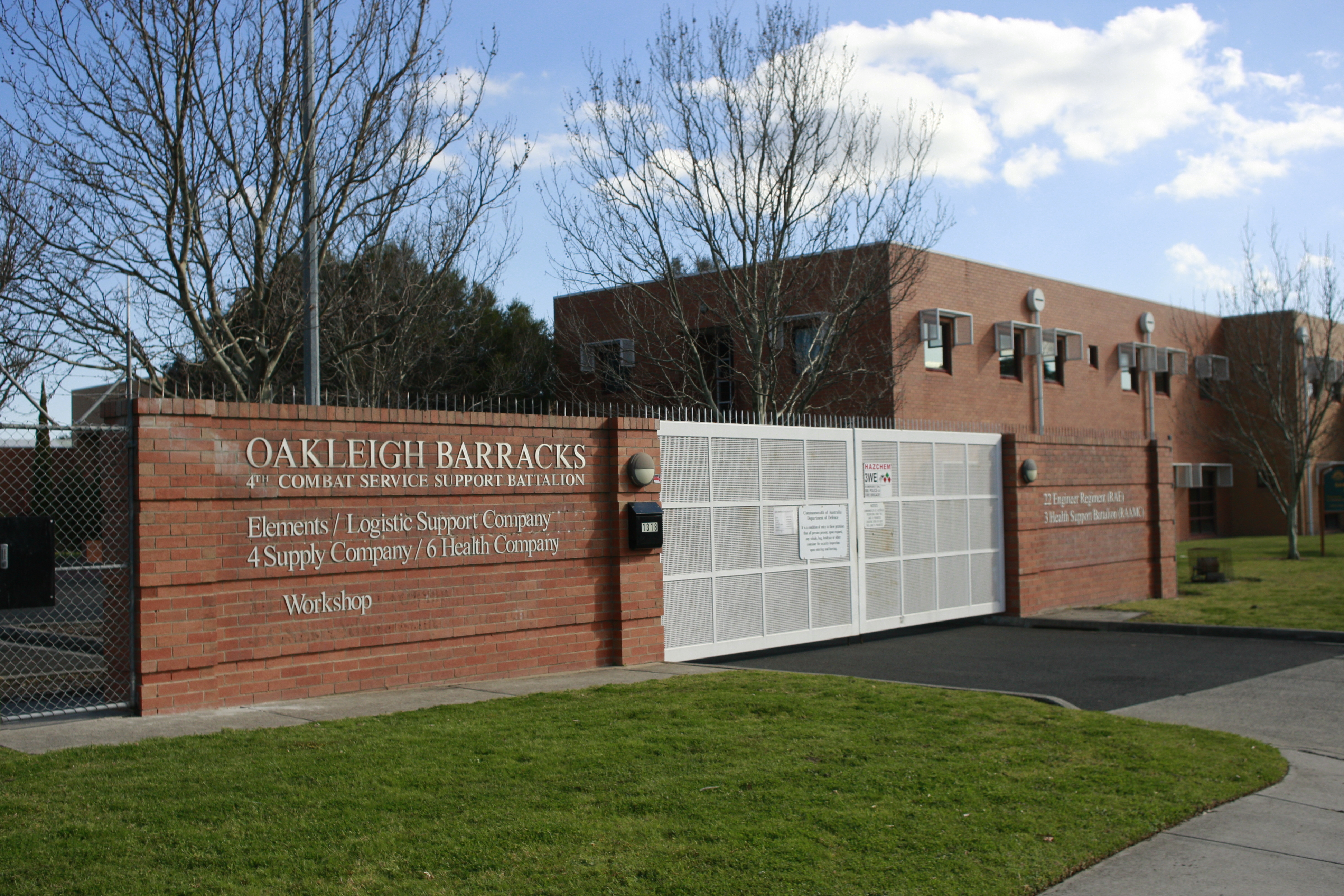 Main entrance to Oakleigh Barracks in Oakleigh South, Melbourne, Australia